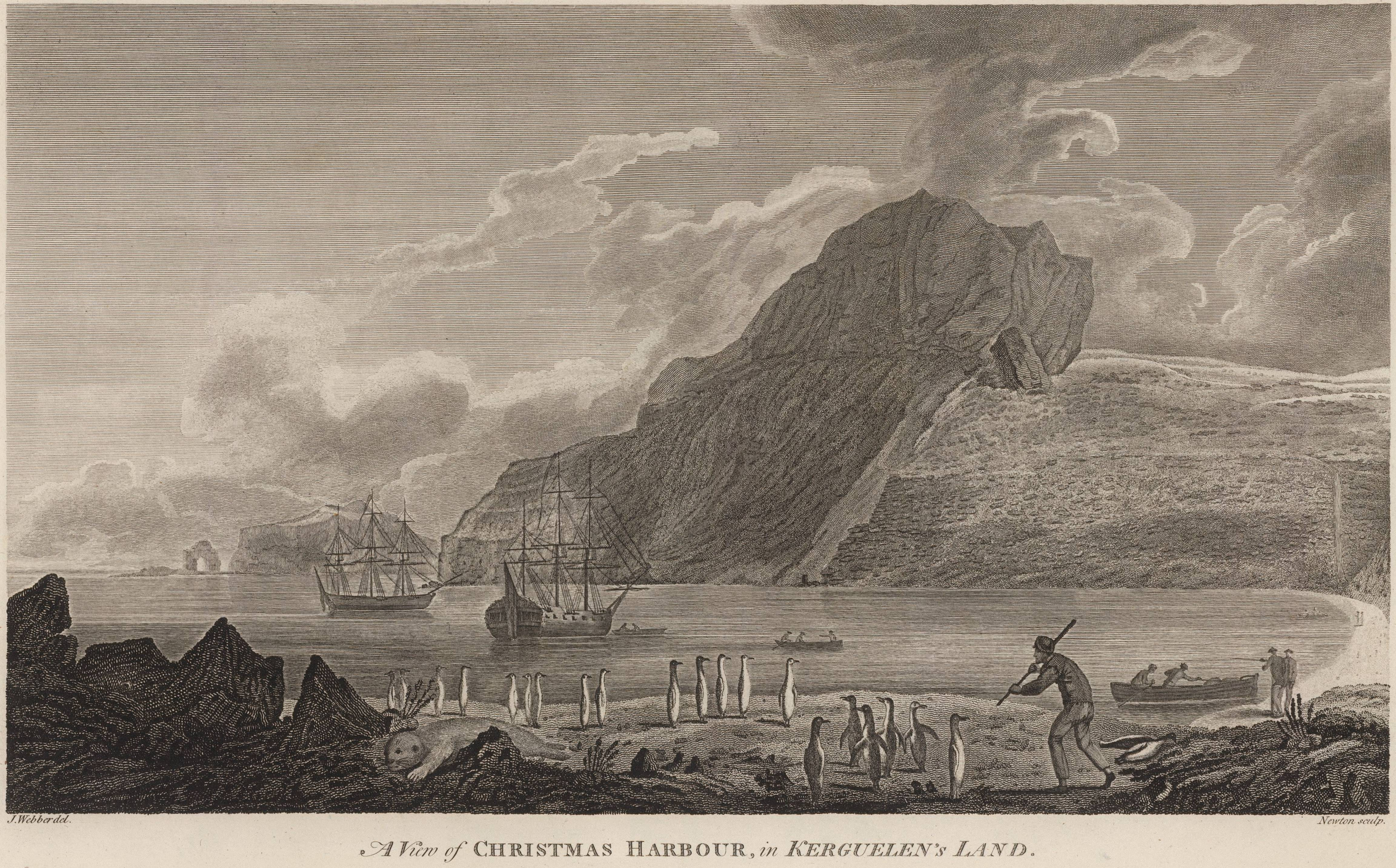 Ships of James Cook at Christmas Harbour, Kerguelen Islands, December 1776. John Webber del. Newton sculp